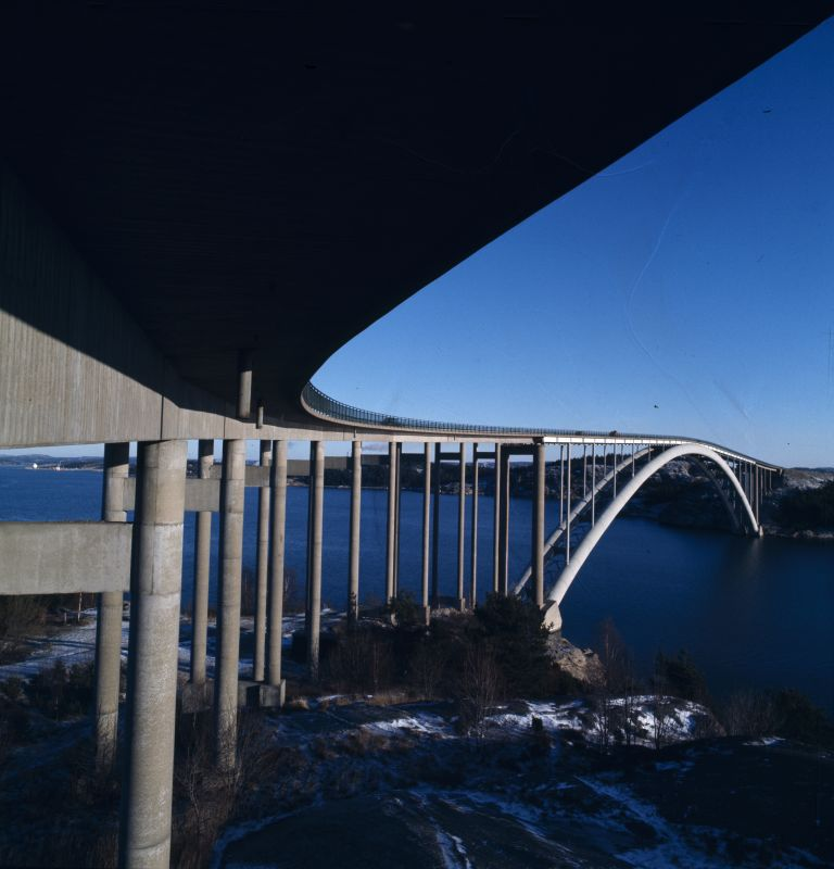 Almöbron (destroyed in 1980), replaced by the Tjörnbron Stenungsund, Sweden